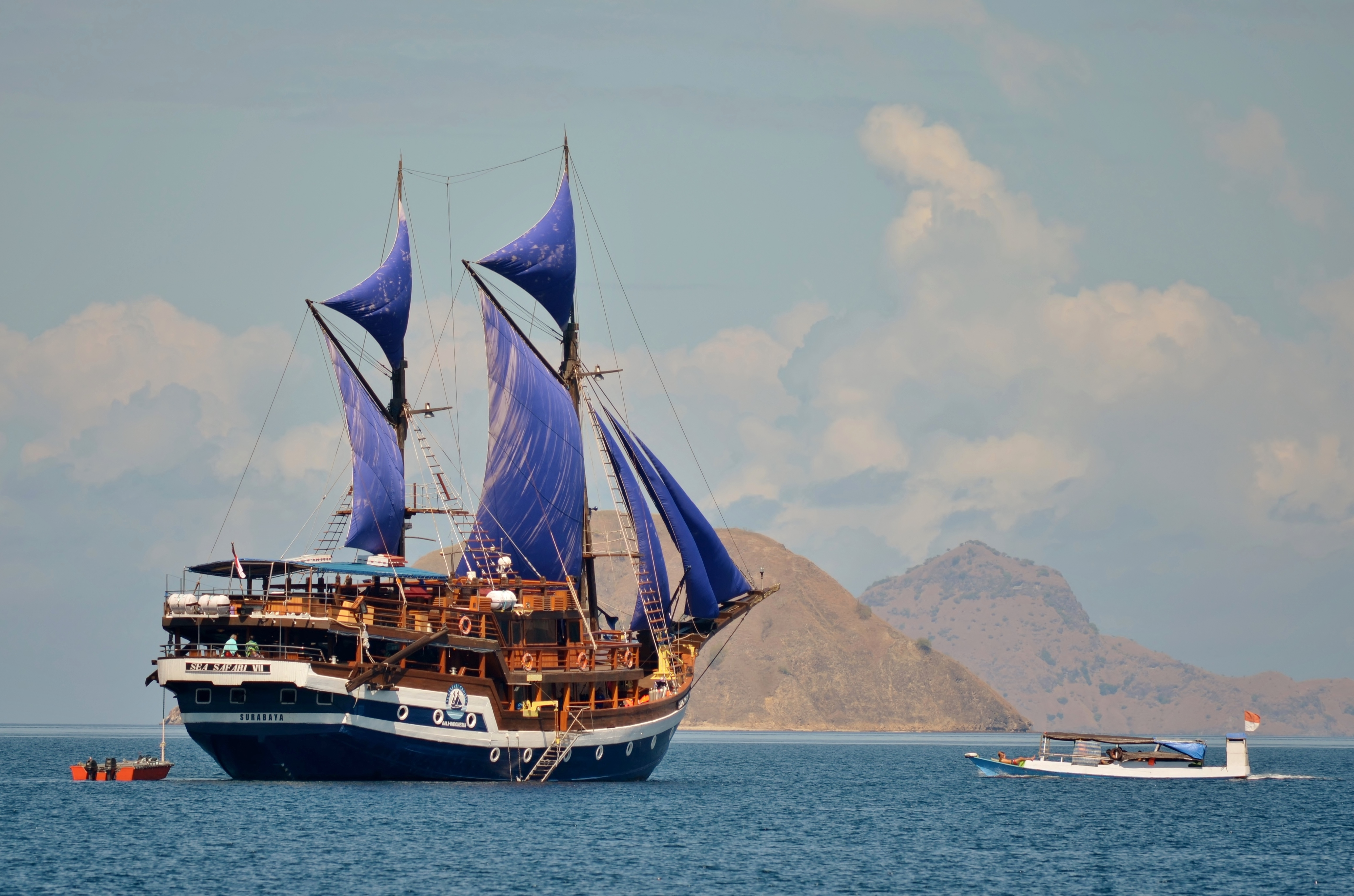 Cruise ship Sea Safari VII moored off Komodo island while her passengers explore the area.